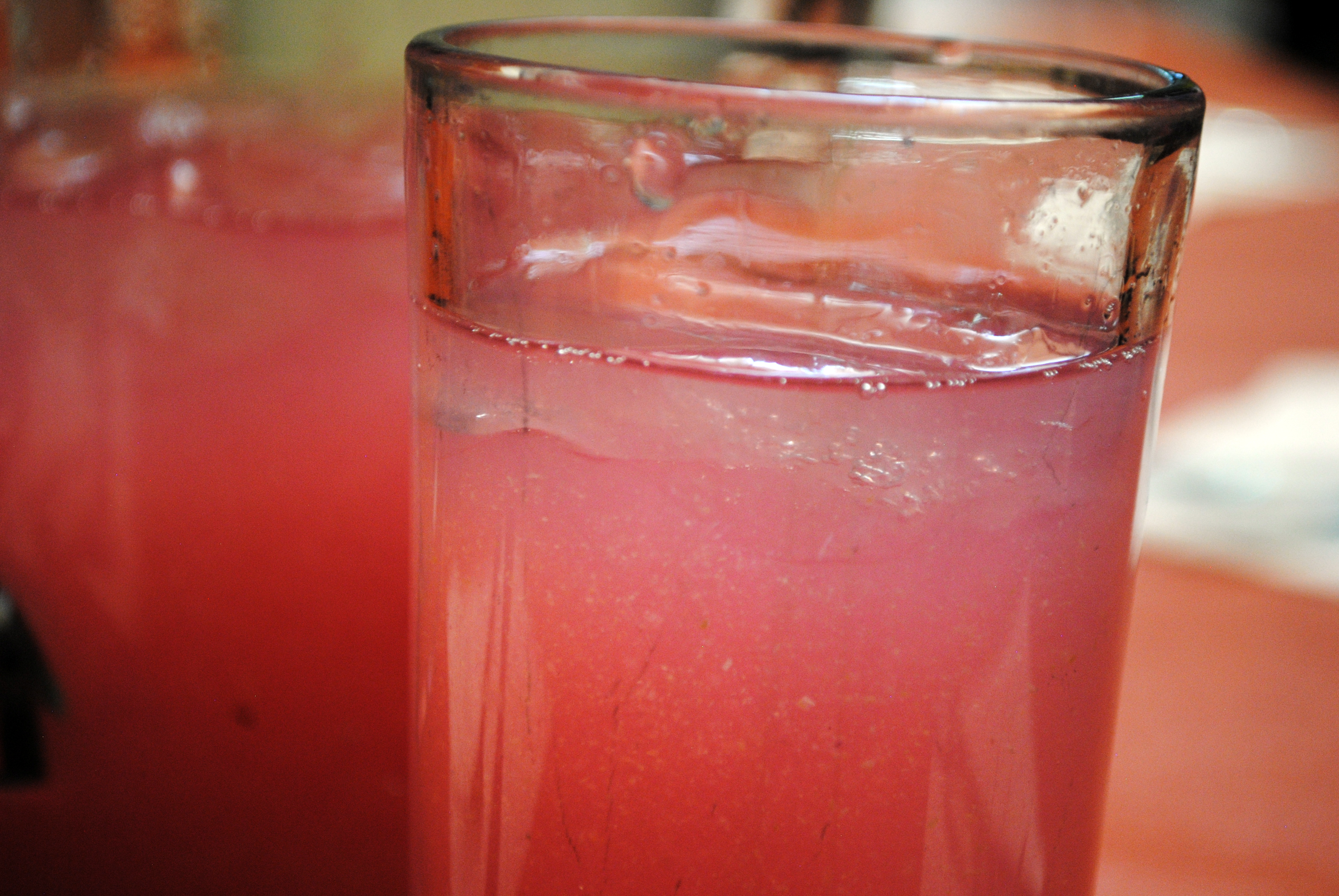 Traditional Mexican agua fresca with guava